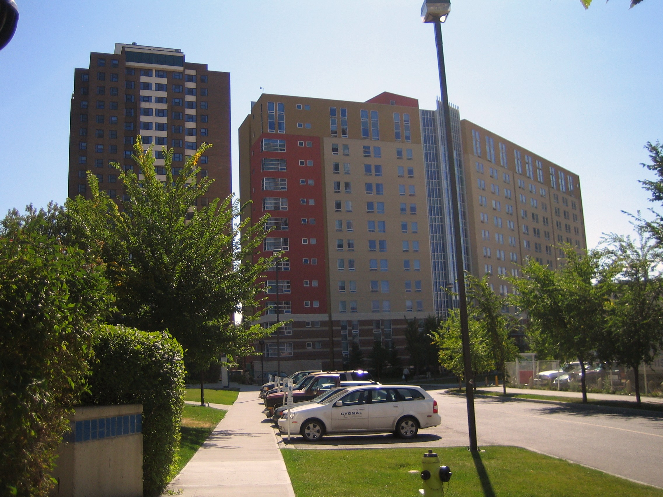 SAIT's student residence buildings.